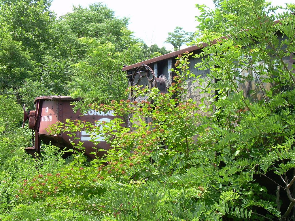 Abandoned rail cars along the Ghost Town Trail